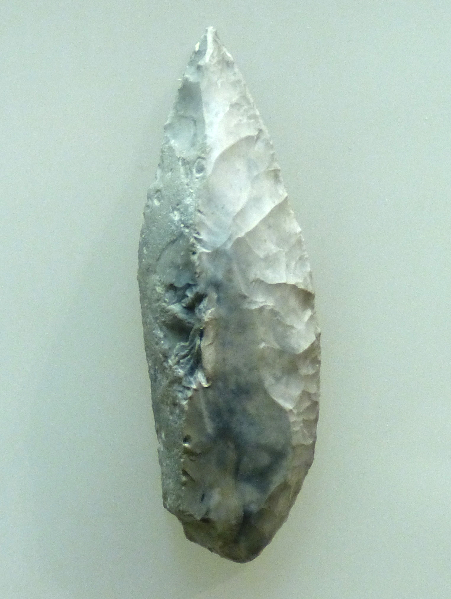 Weimar ( Thuringia ). Museum for Prehistory in Thuringia: Flint point ,dating back 230.000 years, from Weimar-Ehringsdorf.